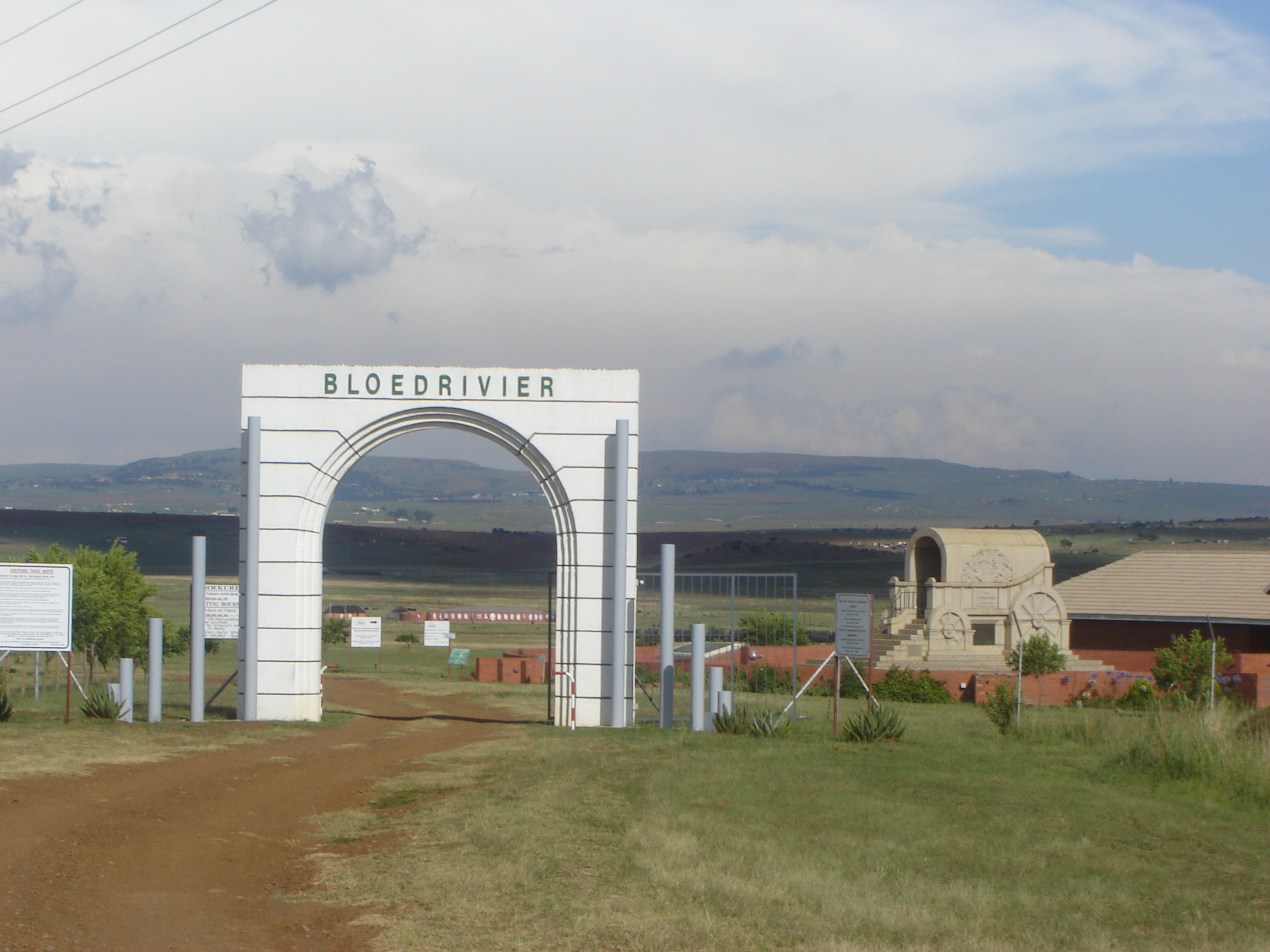 Entrance to the Battle of Blood River Monument in Kwazulu-Natal. The monument is visible in the background.